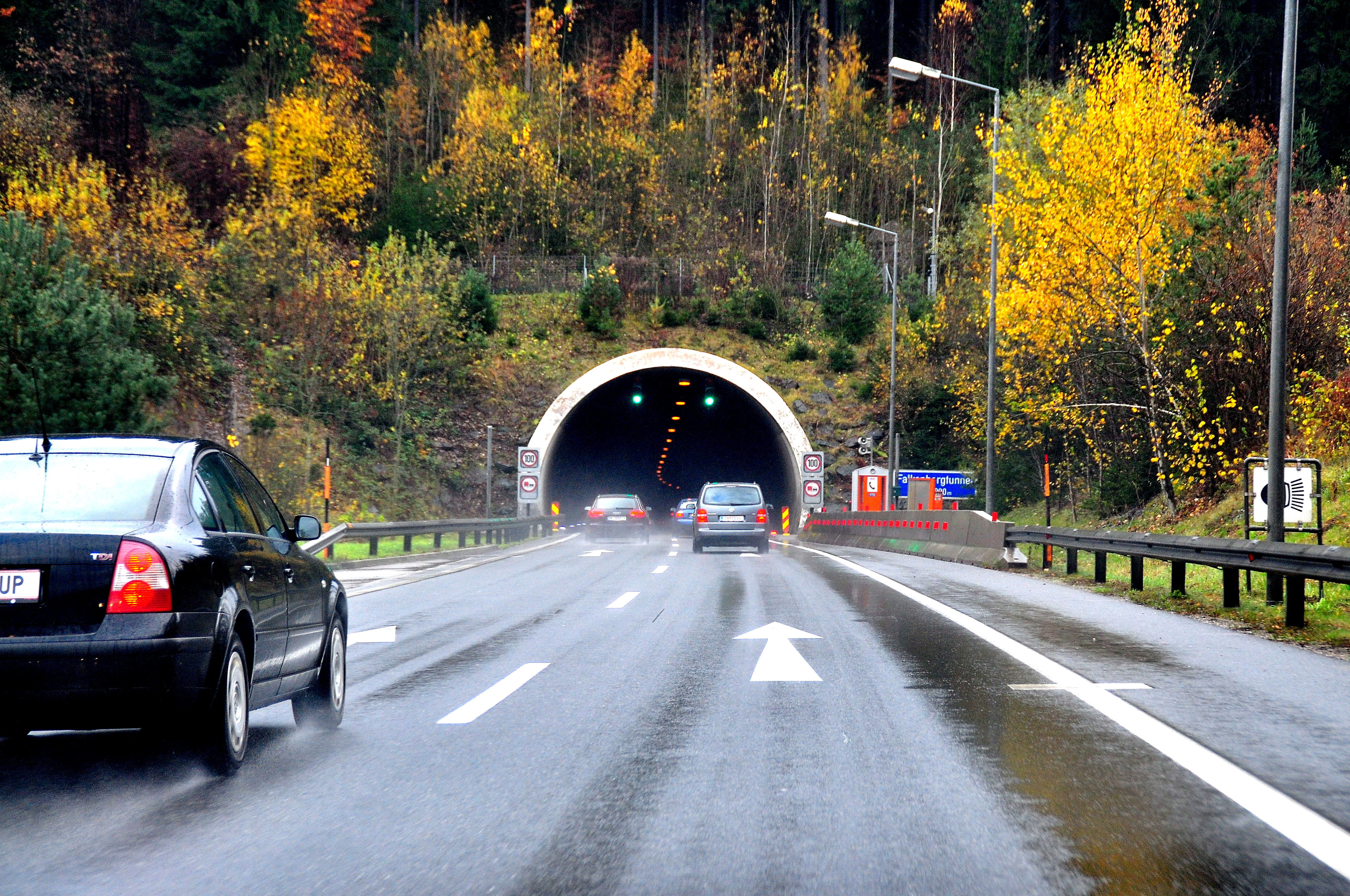 Autobahn with the portal of the Falkenberg tunnel in the northern part of the city of Klagenfurt, Carinthia, Austria